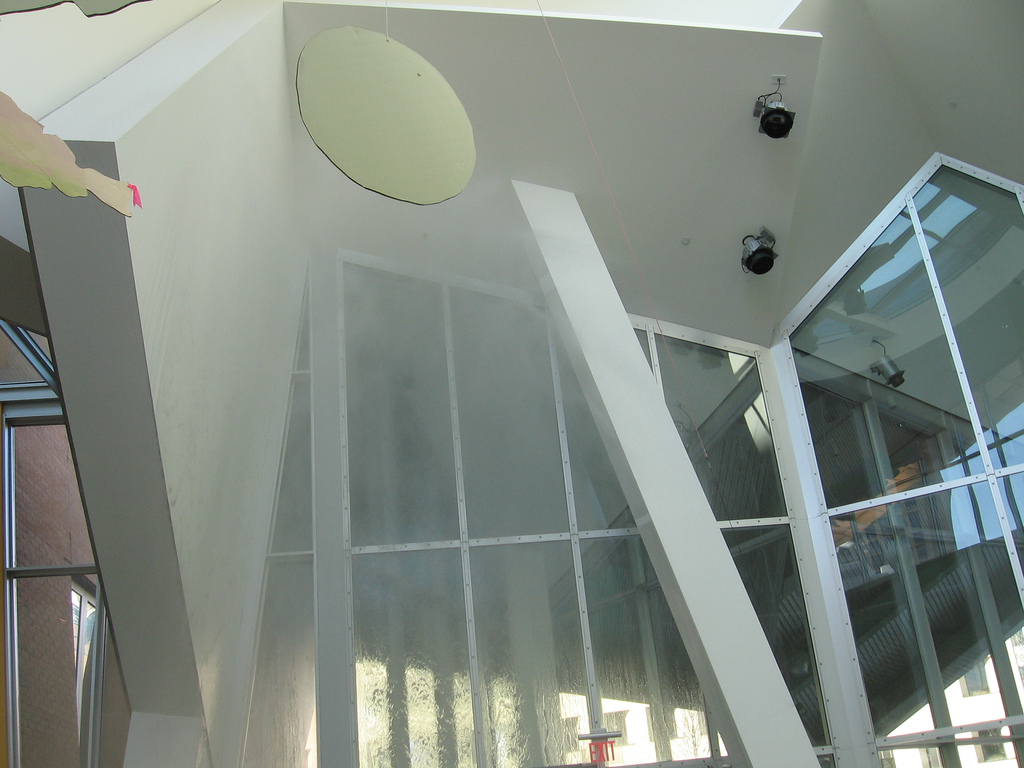 Water started gushing out of a sprinkler pipe as I passed by. A few minutes later the fire alarms went off. Meanwhile, at the top, some bits of hanging fishes and circles are visible. They have messages on them that extol the virtues of water conservation.